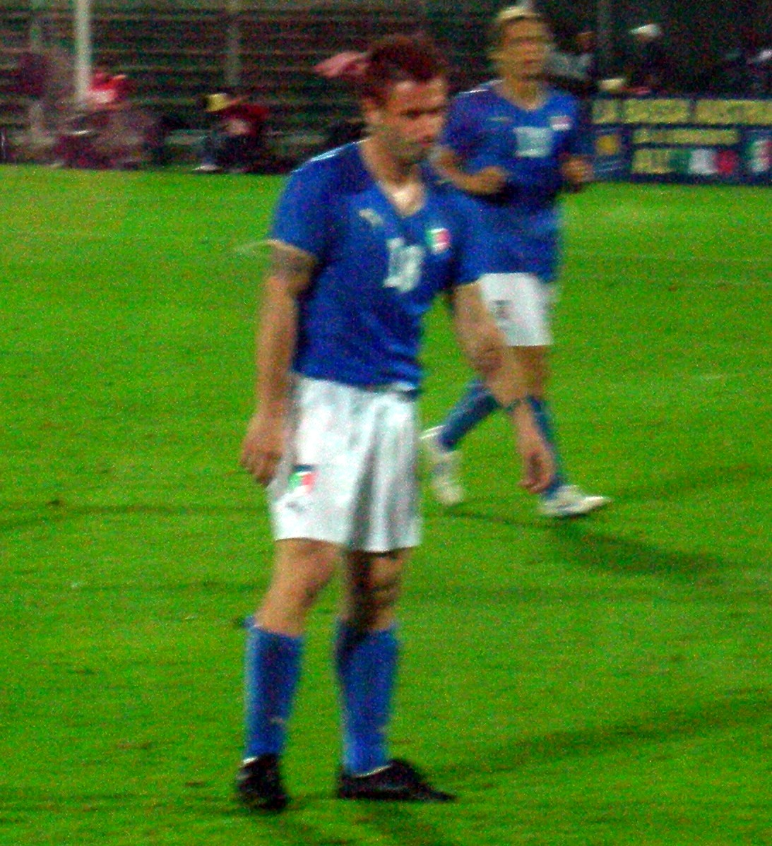 Player photo, made during the friendly football match Italy vs Belgium, played May 30, 2008 in Florence (Italy)